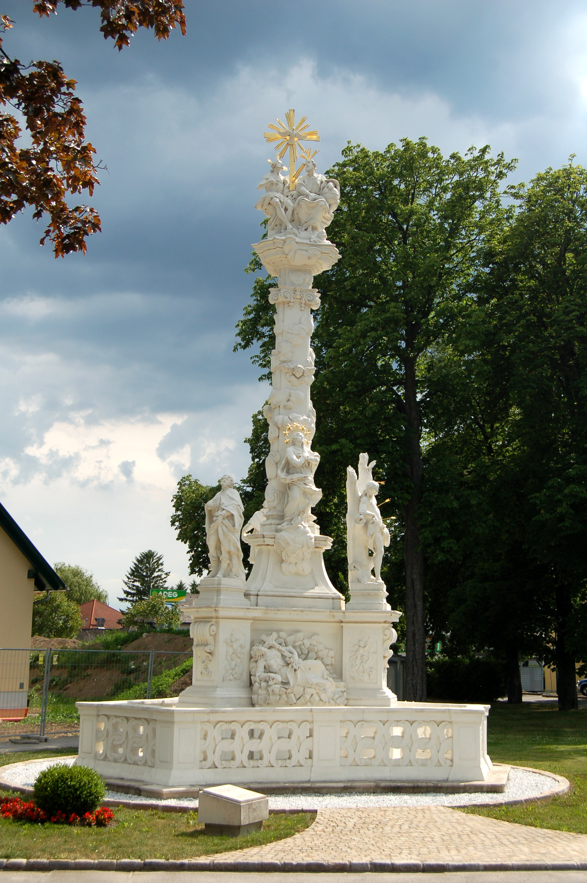 The Holy Trinity column / Plaque column in Trumau, Lower Austria is a cultural heritage monument. It was renovated 2006/07.